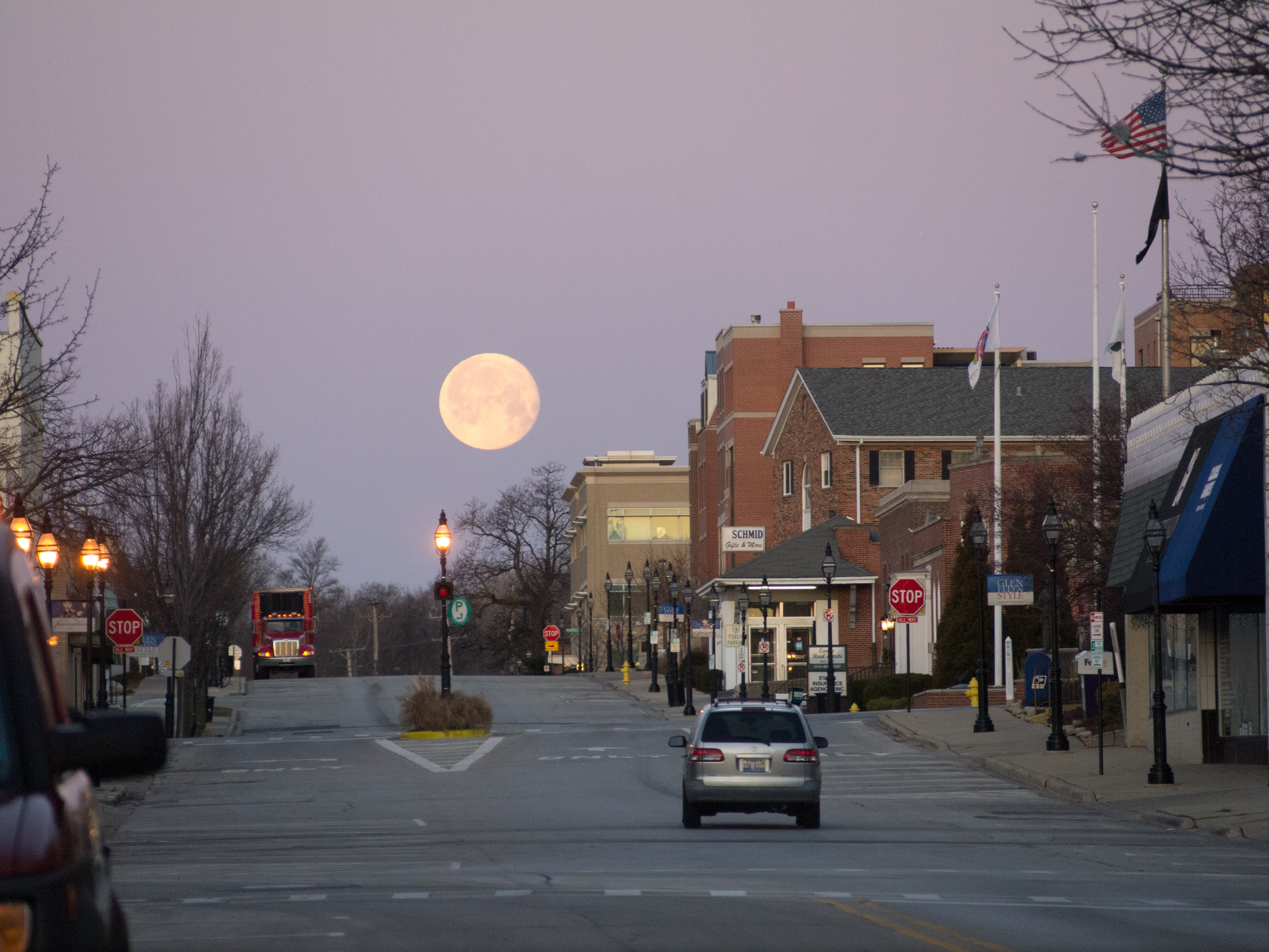 Moon setting over Pennsylvania Avenue, Glen Ellyn, Illinois. Looking West.